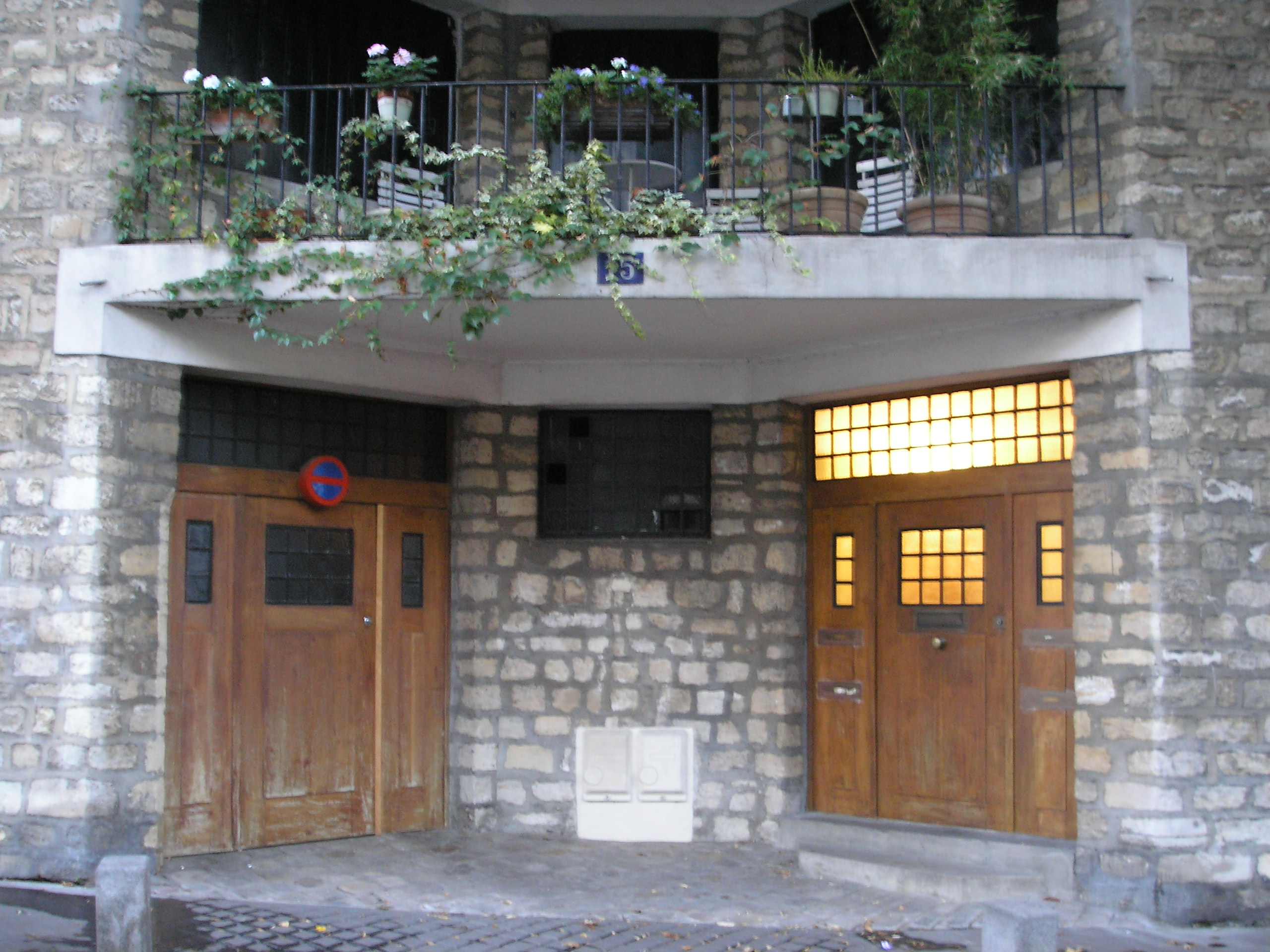 View of the house of Tristan Tzara in Paris, 15 Avenue Junot in Paris 18th arrondisement. Constructed by the Austrian architect Adolf Loos in 1926.